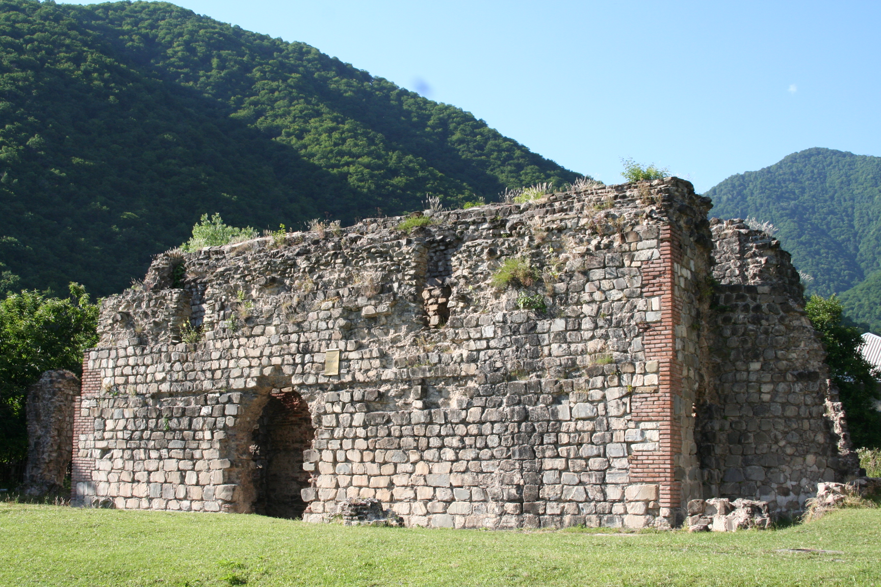 Church in Qum, Azerbaijan. Built in the 5th-6th centuries.